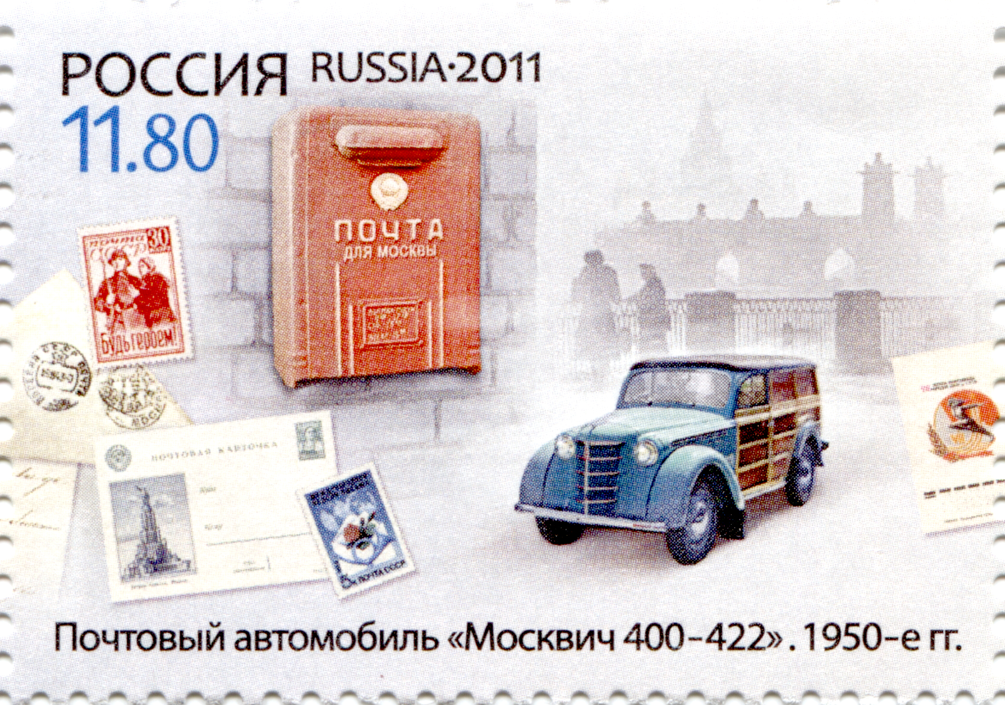 Postage car Moskvitch 400-422, 1950. Moscow Postamt 300 jubilee (se-tenant). The stamp of Russia, 2011, PTC Marka Catalogue 1538.